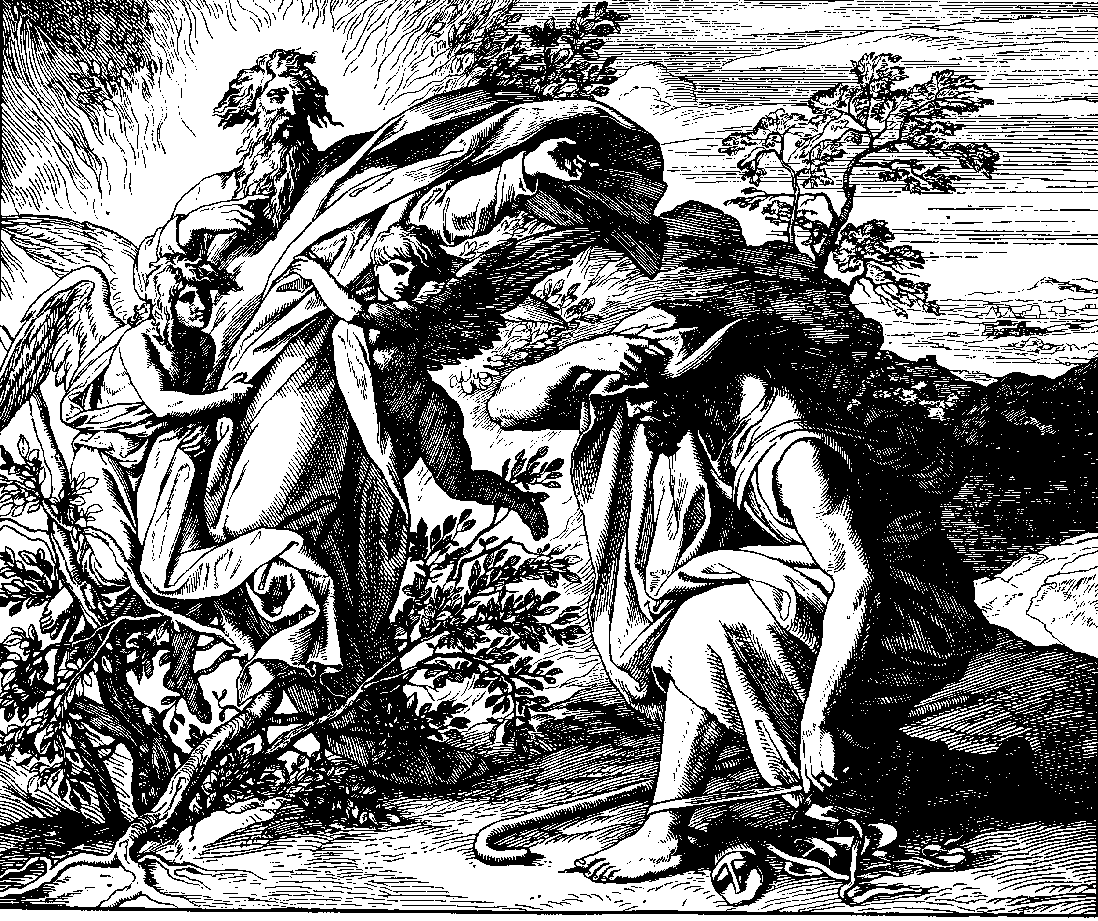 Woodcut for "Die Bibel in Bildern", 1860.